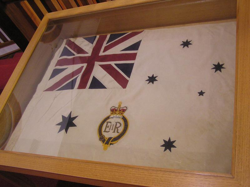 The second Monarch's Colours (Standard) received by the Royal Australian Navy from Elizabeth II of the United Kingdom. Laid up in the Naval Chapel. I took this picture. Peter Ellis 12:16, 12 November 2006 (UTC)